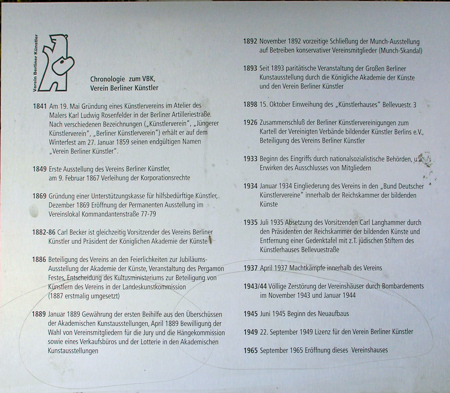 Memorial plaque, Verein Berliner Künstler, Schöneberger Ufer 57, Berlin-Tiergarten, Germany Koordinate:52°30′20″N 13°21′59″E / 52.50556°N 13.36639°E